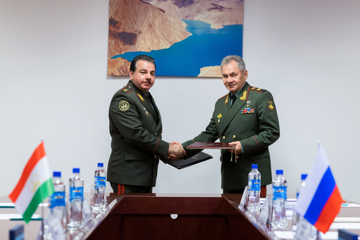 Sherali Mirzo and Sergei Shoigu in Dushanbe